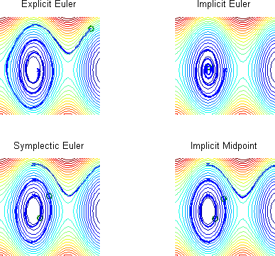 Trajectories for a simple pendulum. They were obtained using four different numerical methods.